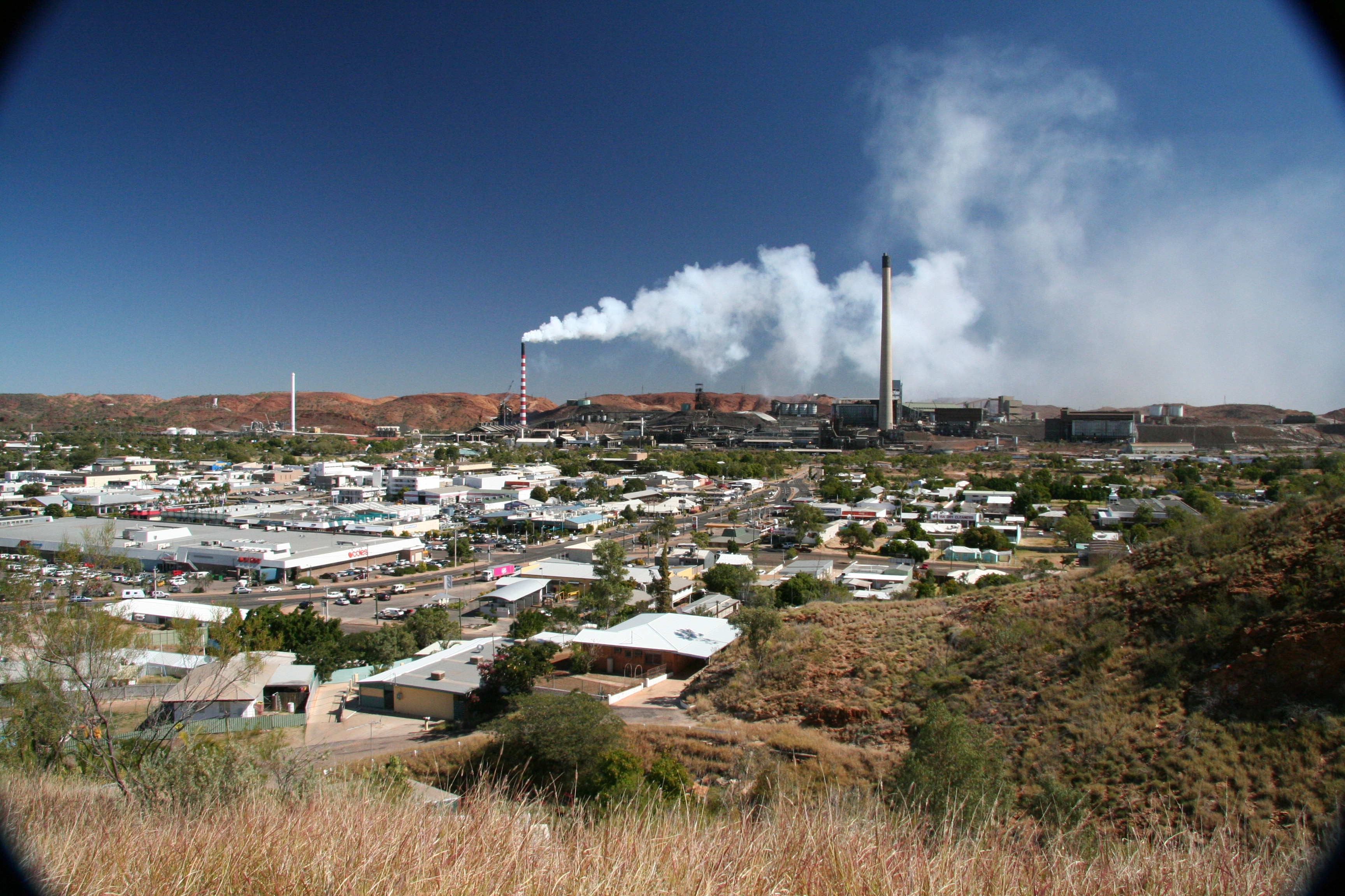 Mount Isa, Australia